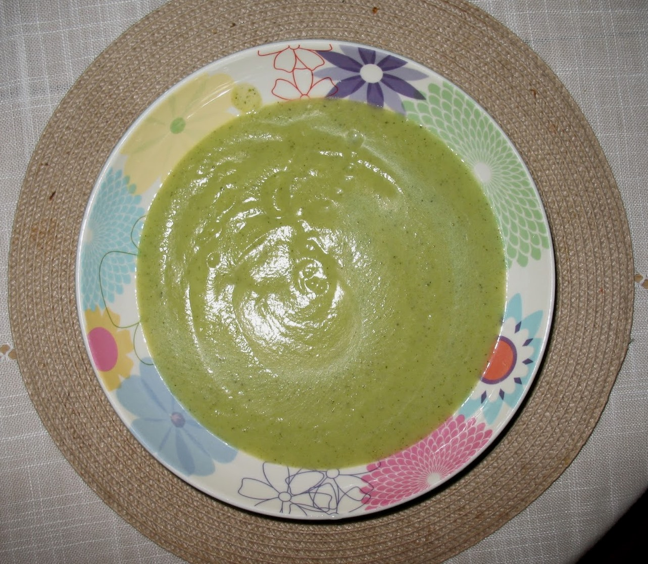 Zucchini soup